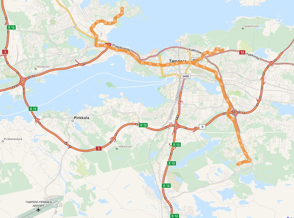 The planned Tampere light rail possible route. Letter R means the light rail stop.